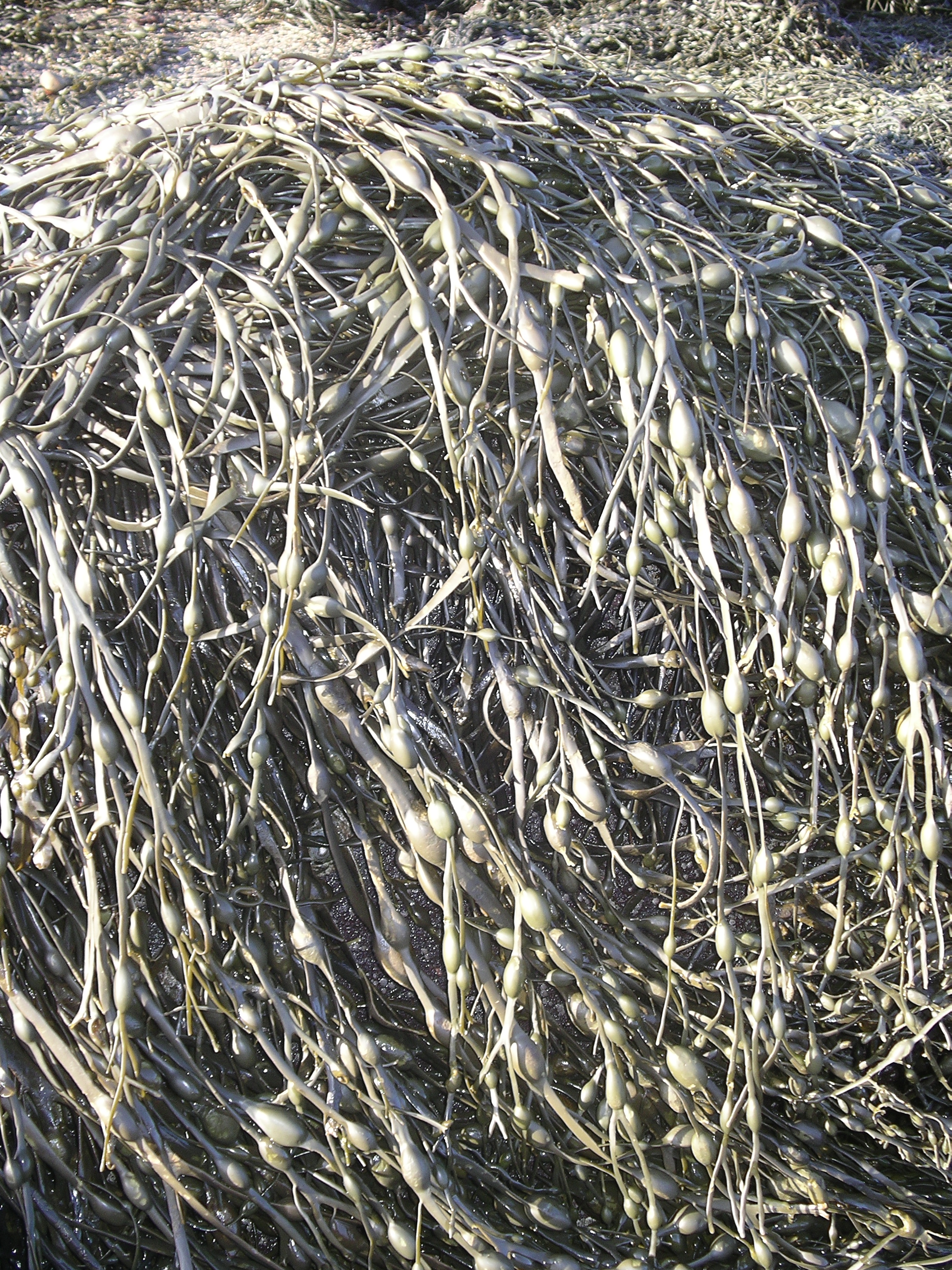 Ascophylum nodosum on inter-tidal zone of Menai Strait. January 2005